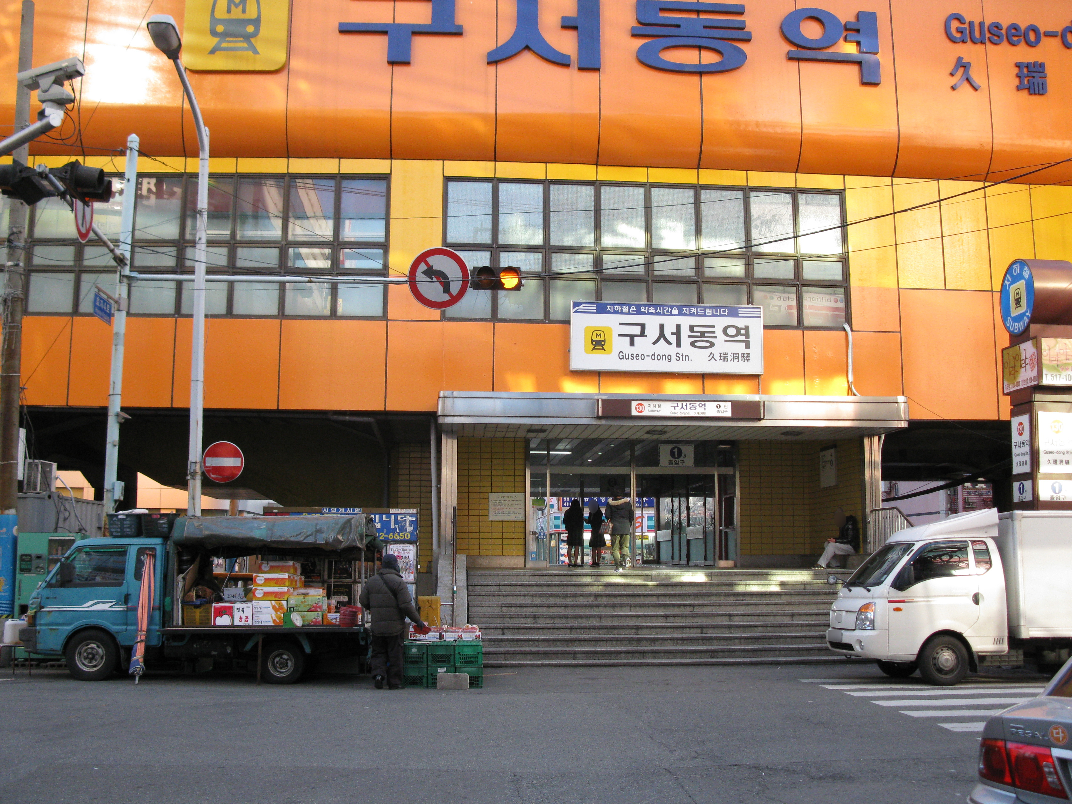 Guseo-dong Station no.1 entrance (Busan Subway Line 1)